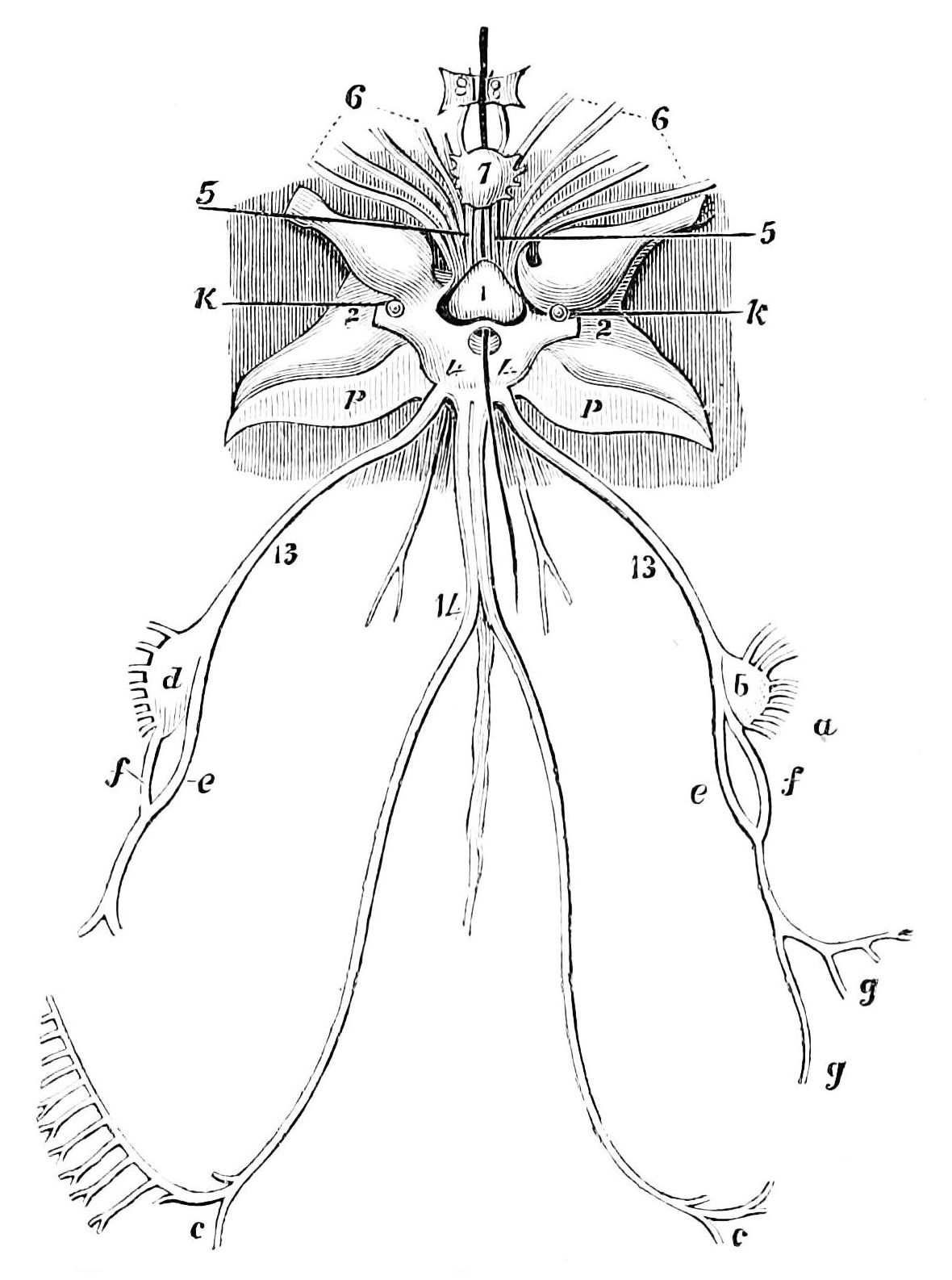 “Nervous system of the common cuttle-fish (Sepia officinalis)” Explanation: 1 = “large bilobed ganglion” of the “supra-oesophagal ganglionic mass” 2 = lobes of the “optic ganglion”, connected to the “supra-oesophagal ganglionic mass” 4 = “sub-oesophagal ganglionic mass” 6 = large nerves “connected with the feet and tentacles” projecting from the anterior part of the “sub-oesophagal ganglionic mass” 7 = “pharyngeal ganglion”, connected to the “large bilobed ganglion” of the “supra-oesophagal ganglionic mass” (via 5?) 13, 14 = large nerves connected to the “branchiae and other viscera as well as to the mantle” going off the posterior part of the “sub-oesophagal ganglionic mass” All other numbers and letters in the drawing are not explained in the accompanied text (pp. 34–36 in the source).